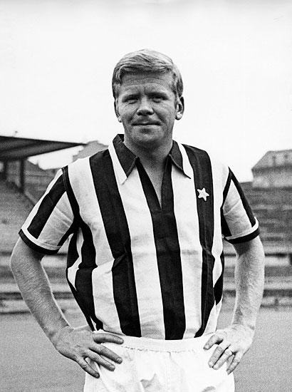 West German footballer Helmut Haller with Juventus F.C. in the late 1960s, posing inside the Communal Stadium in Turin.